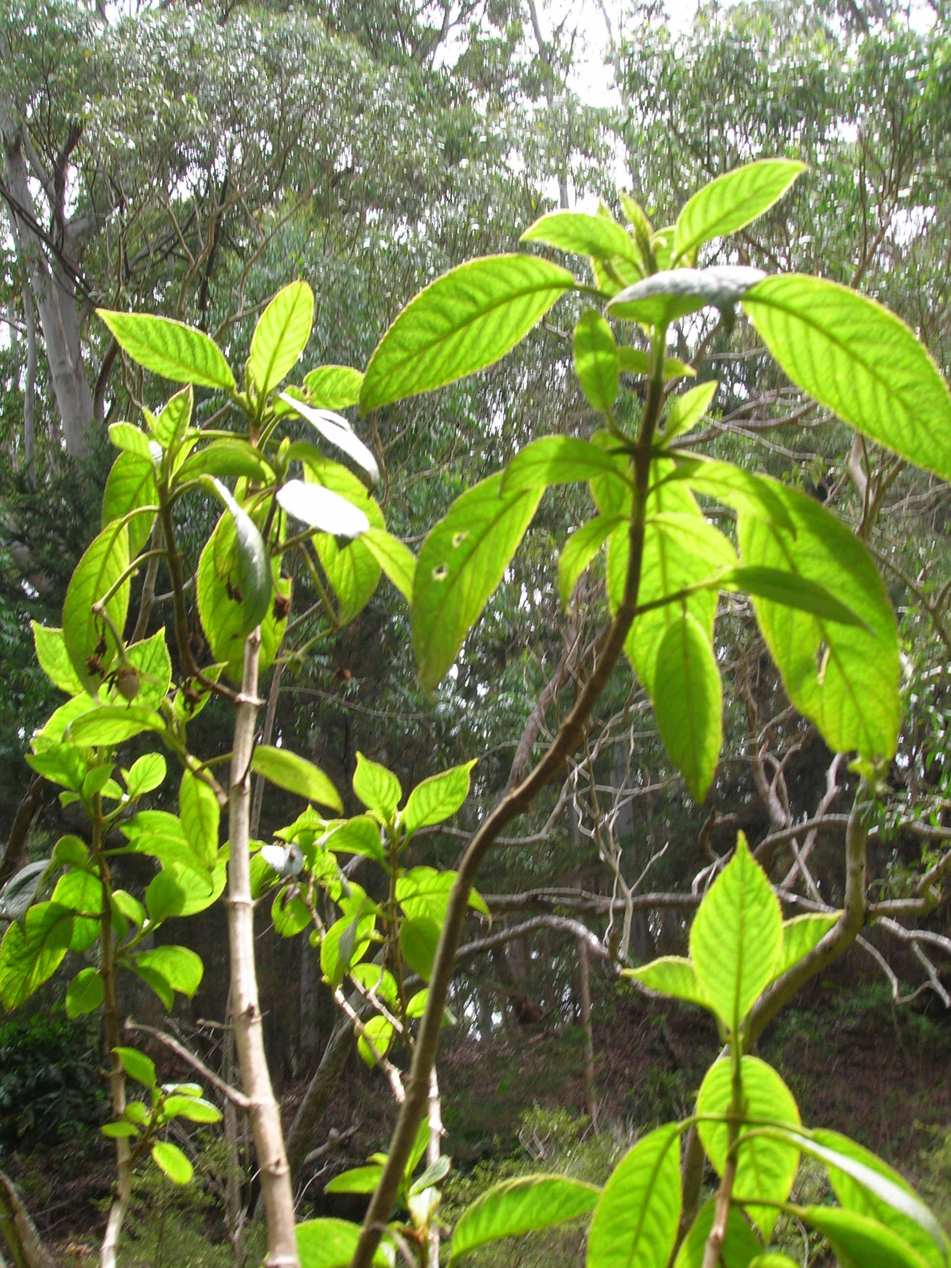 Cyrtandra sp. (leaves). Location: Maui, Makawao Forest Reserve